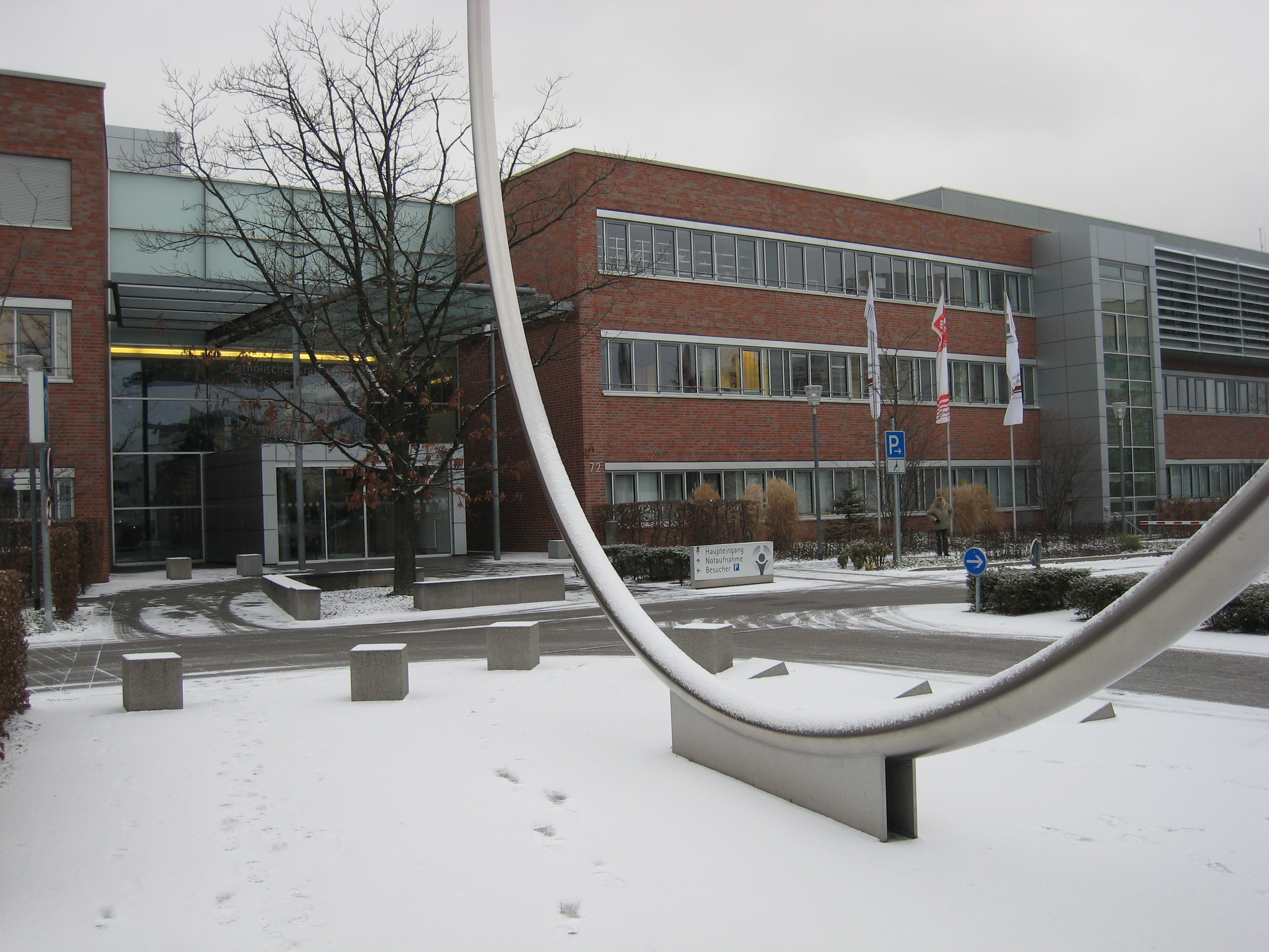 Catholic hospital Erfurt, Haarbergstrasse 72